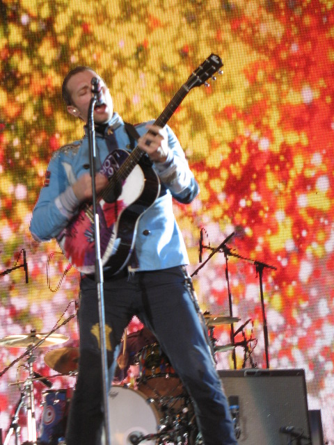 Photo taken on the tour held in Bogota on March 4, 2010